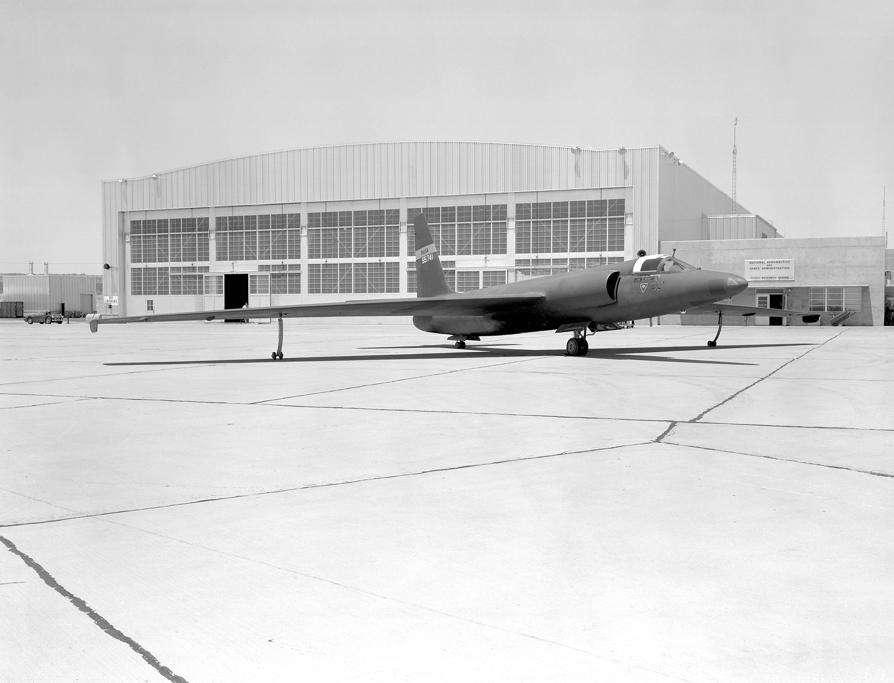 After Francis Gary Powers was shot down over the Soviet Union during a CIA spy flight on May 1. 1960, NASA issued a press release with a cover story about a U-2 conducting weather research that may have strayed off course after the pilot reported difficulties with his oxygen equipment. To bolster the cover-up, a U-2 was quickly painted in NASA markings, with a fictitious NASA serial number, and put on display for the news media at the NASA Flight Research Center at Edwards Air Force Base on May 6, 1960. The U-2 cover story in 1956 was that it was a NASA plane to conduct high-altitude weather research. But various observers doubted this story from the beginning. Certainly the Soviets did not believe it once the aircraft began overflying their territory. The NASA cover story quickly blew up in the agency's face when both Gary Powers and aircraft wreckage were displayed by the Soviet Union, proving that it was a reconnaissance aircraft. This caused embarrassment for several top NASA officials.